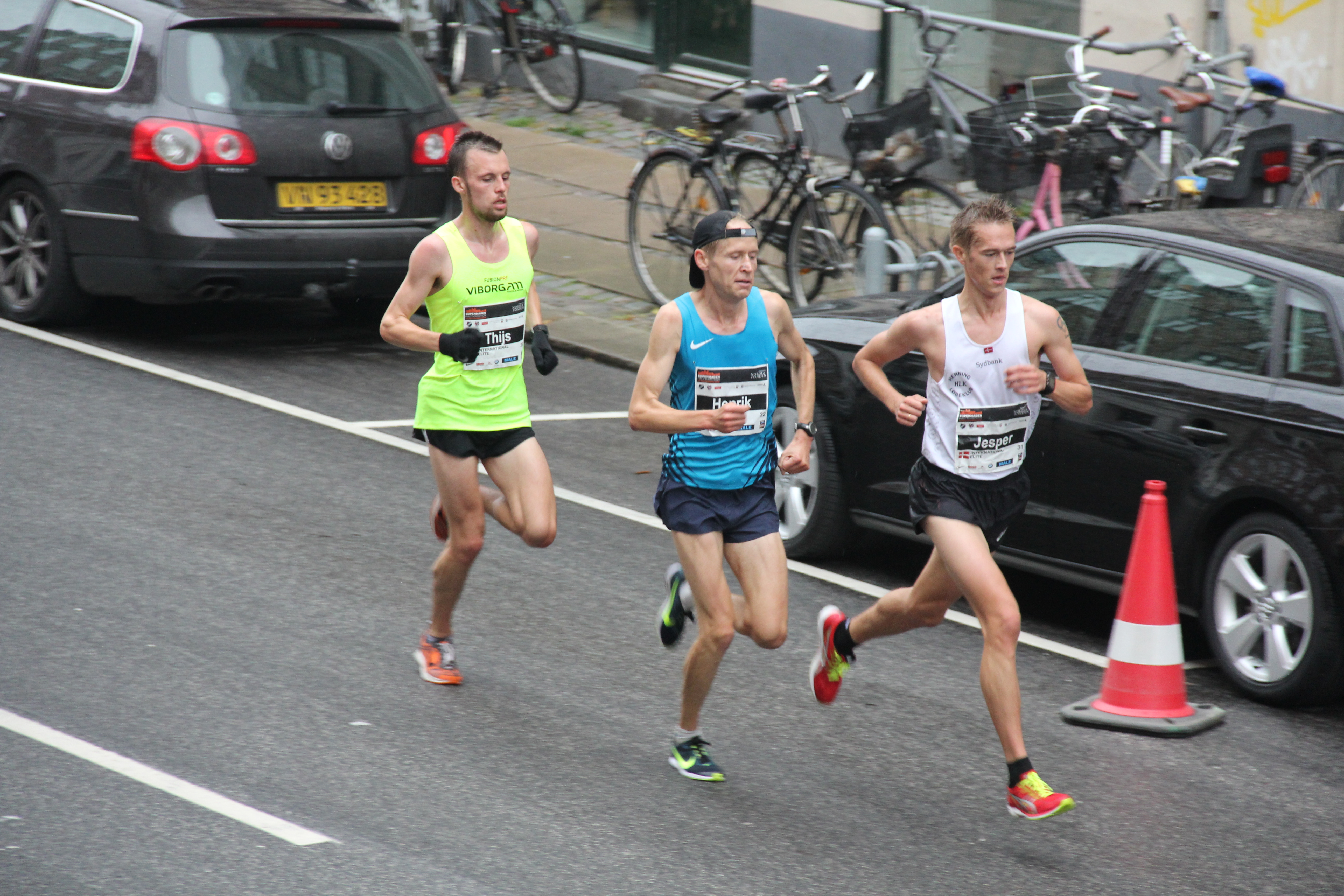 Half marathon Sep 13 2015 at 19.5 km hijs Nijhuis Jesper-Faurschou-Henrik Them Andersen